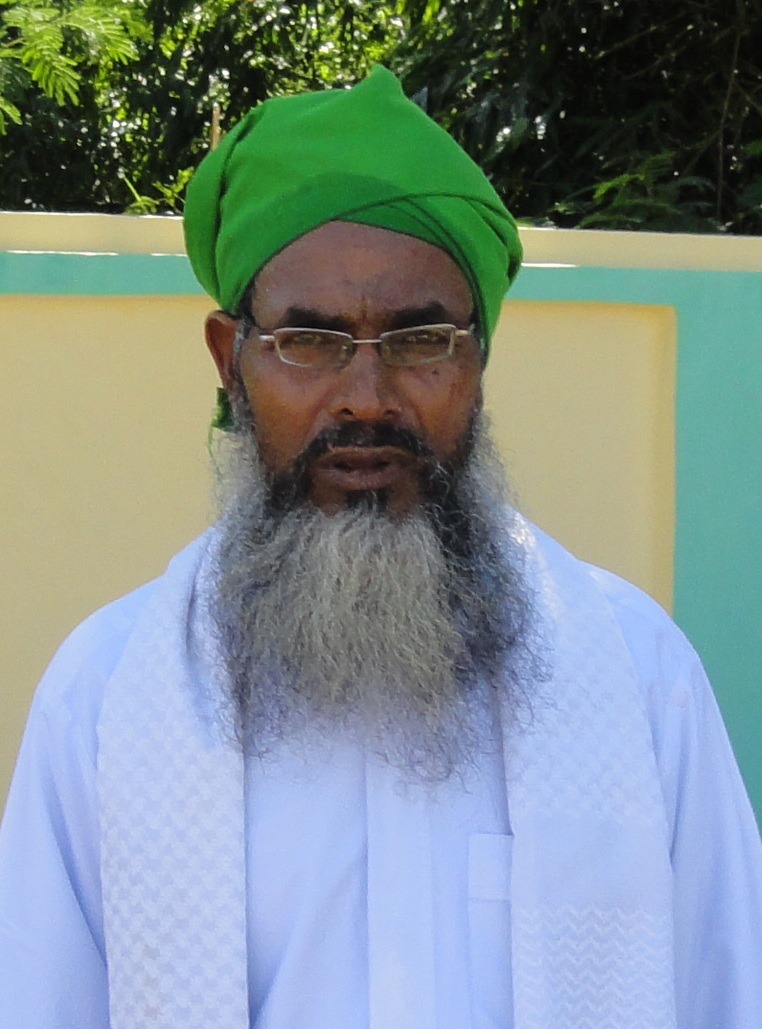 Maulana Faizullah Asharfi at Eid Gah 2011